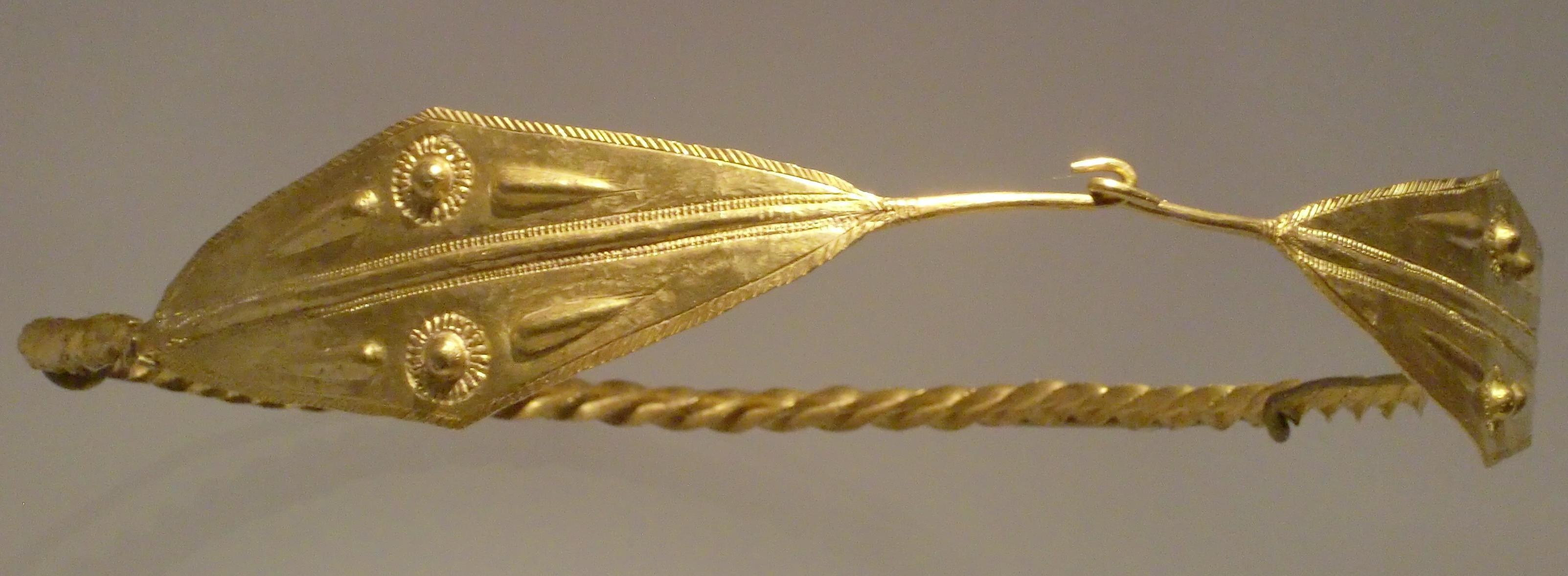 Colchis gold diadem, with thanks to the Georgian National Museum for allowing photography